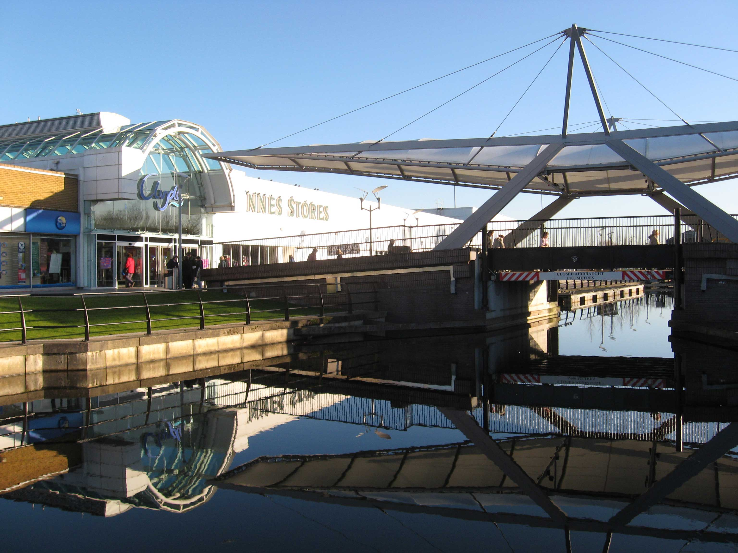 Bridge over the Forth and Clyde Canal at the Clyde Shopping Centre, Clydebank.